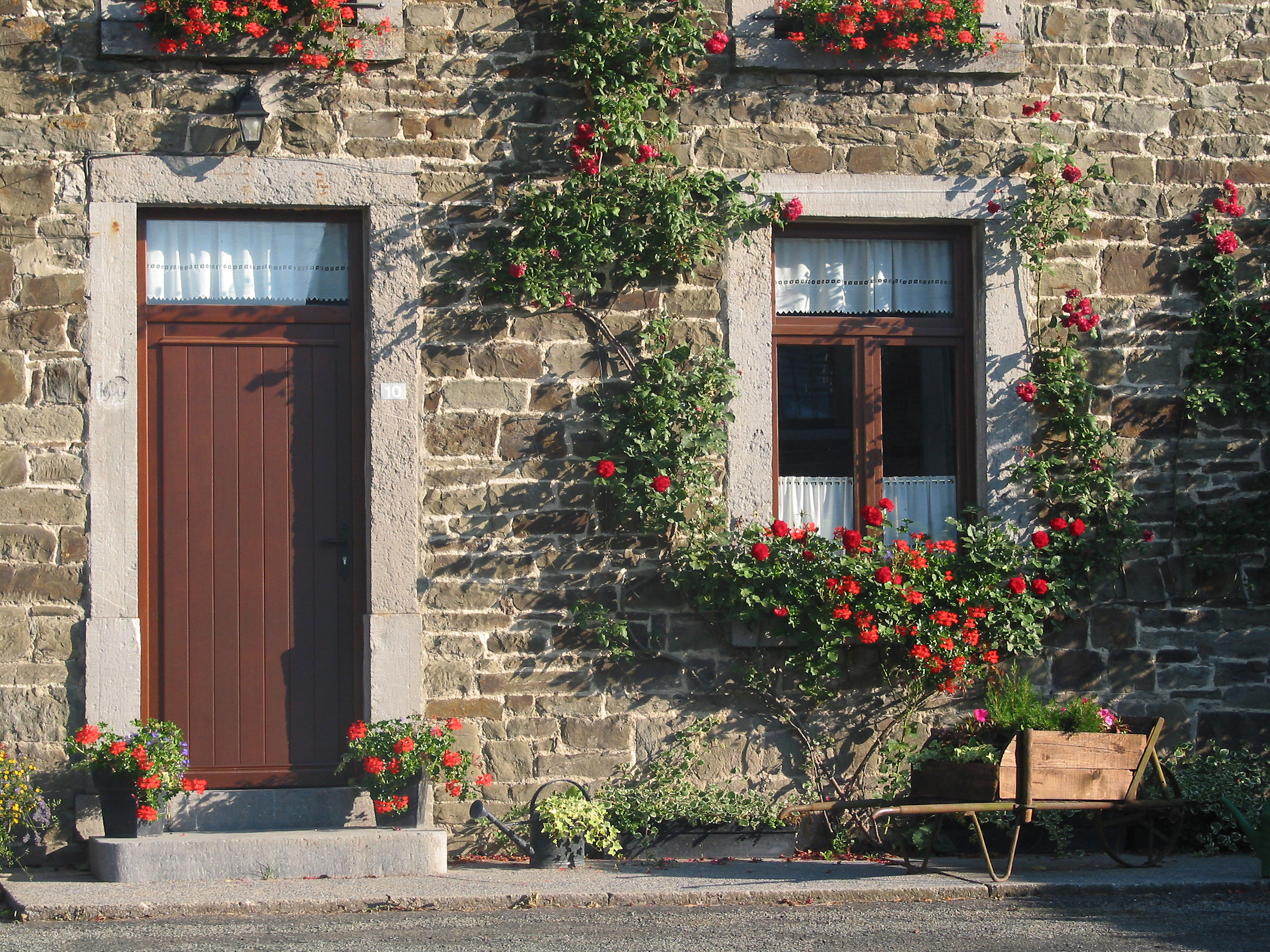 Ambly, Belgium - Lovely façade and flowered barrow.